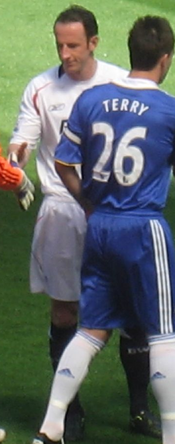 Andy O'Brien. Image cropped from original at Flickr.